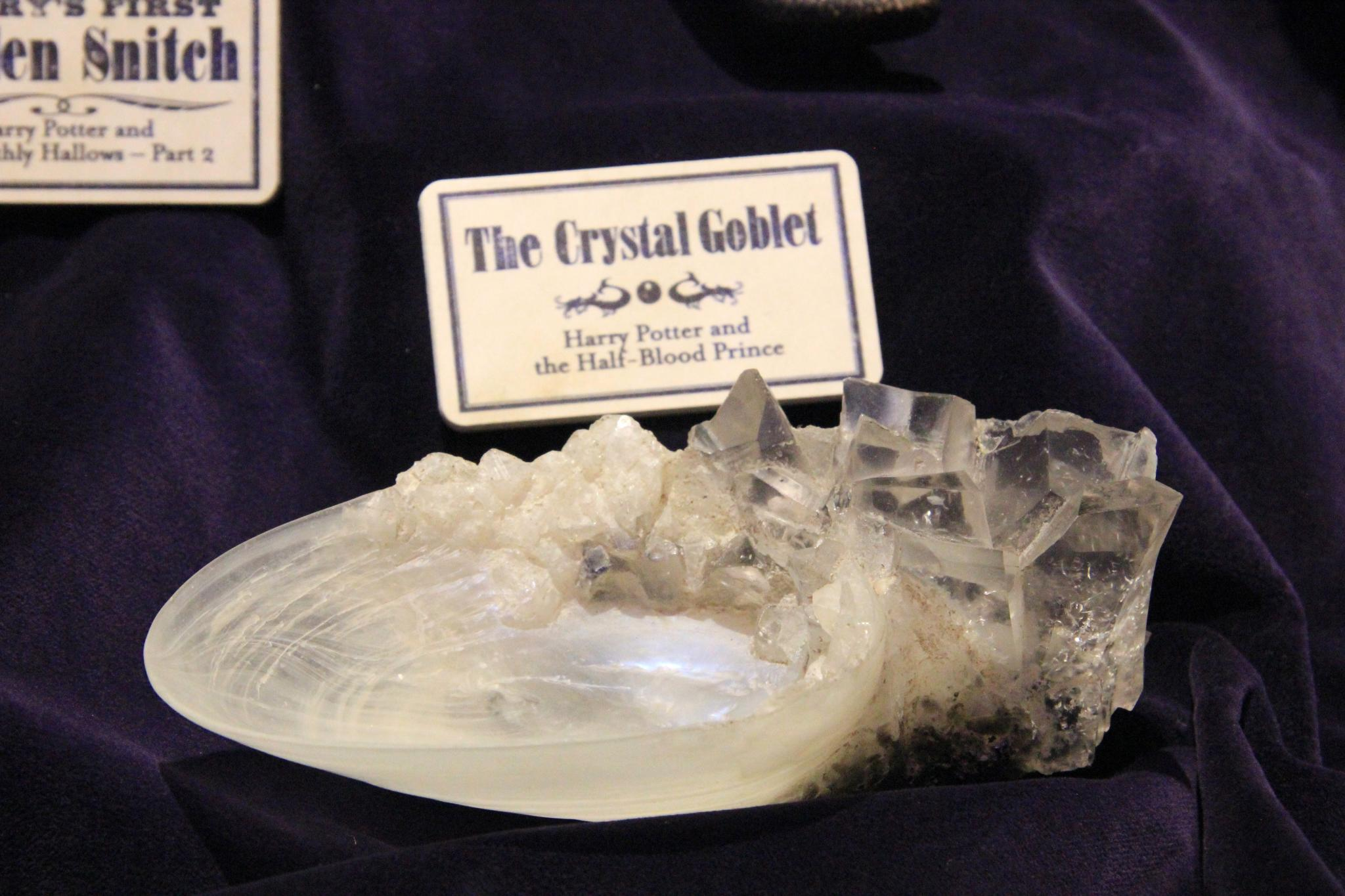 Warner Bros. Studio Tour London: The Making of Harry Potter.